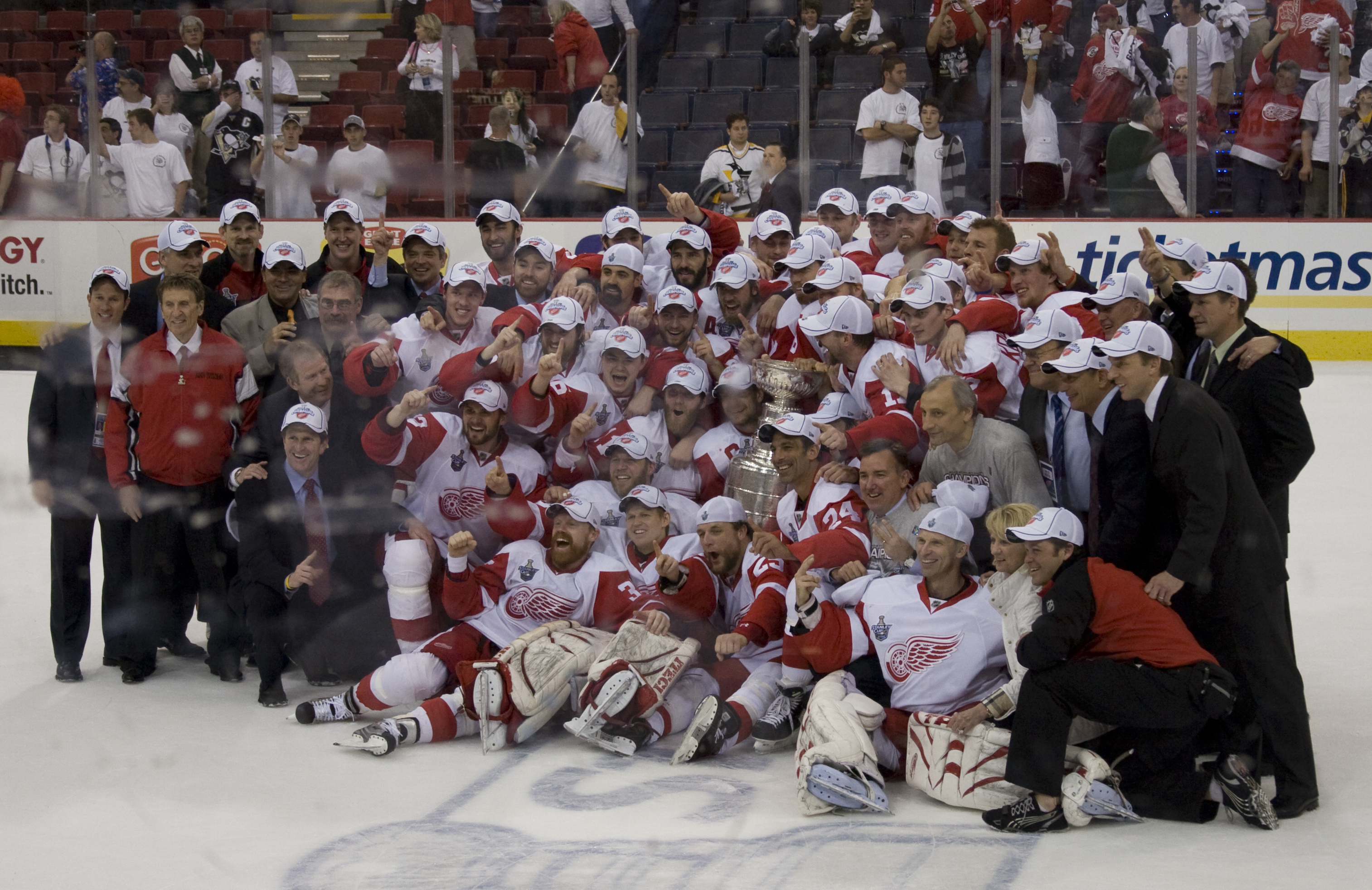 The 2008 Stanley Cup champion Detroit Red Wings pose for a group photo on the ice of the Mellon Arena in Pittsburgh.